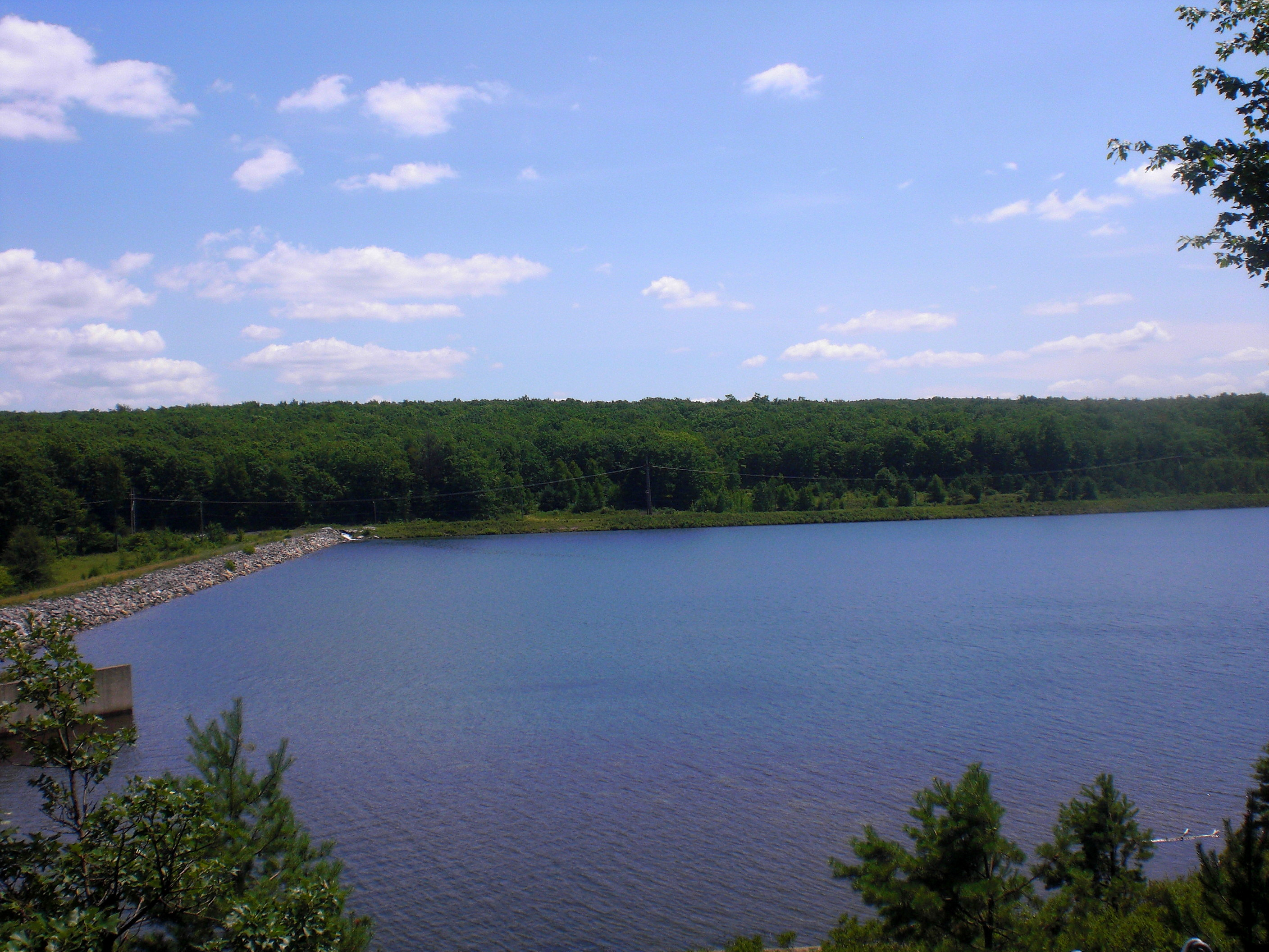 Dreck Creek Reservoir in Hazle Township, Luzerne County, Pennsylvania from the Greater Hazleton Rails-to-Trails.